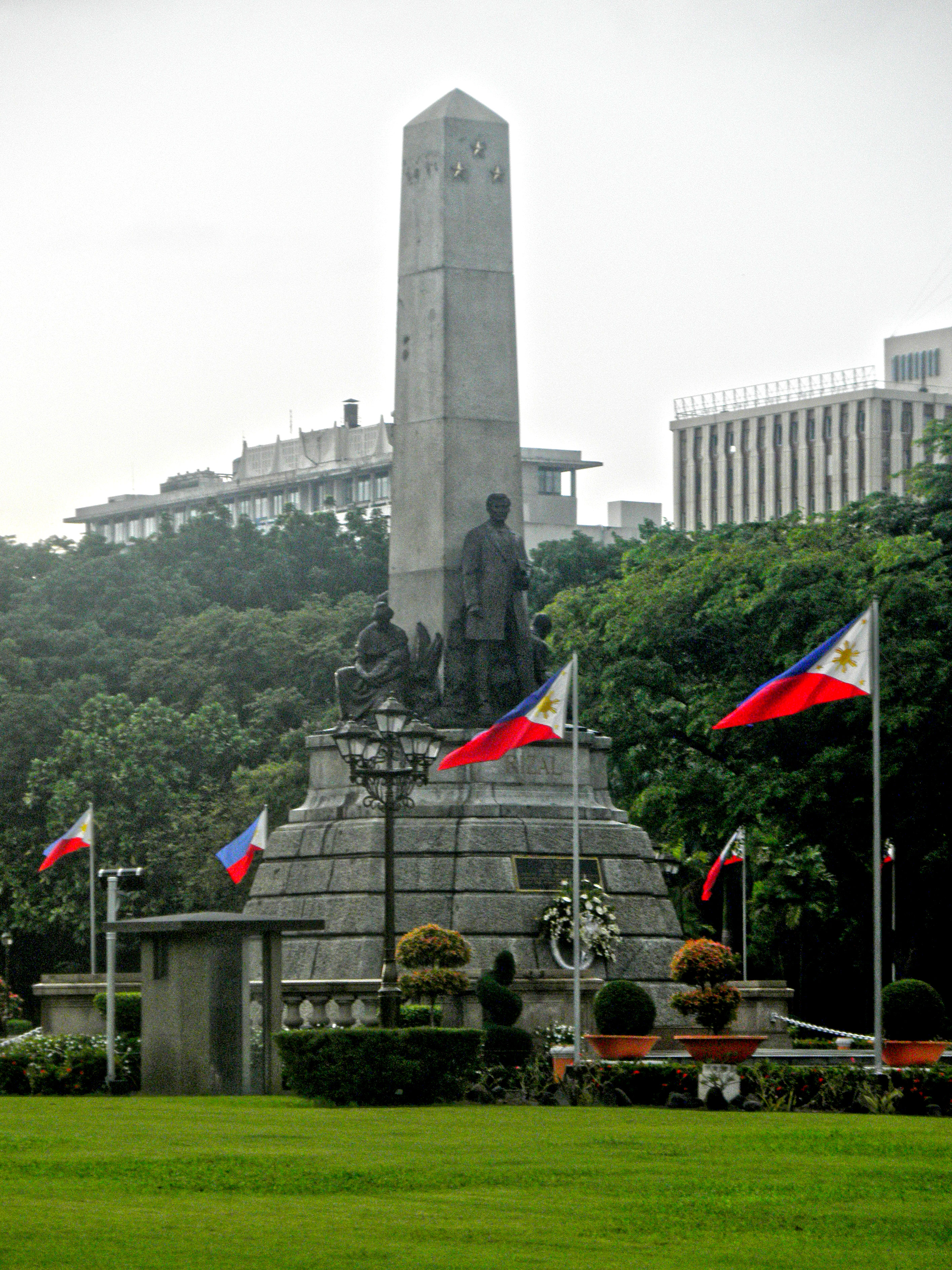 Rizal Monument, Luneta Park in Manila, Philippines